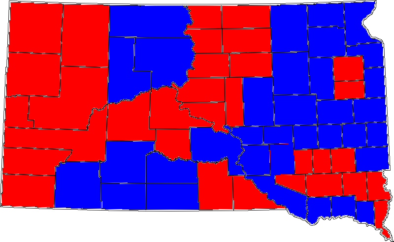 2004 South Dakota Senate results by county